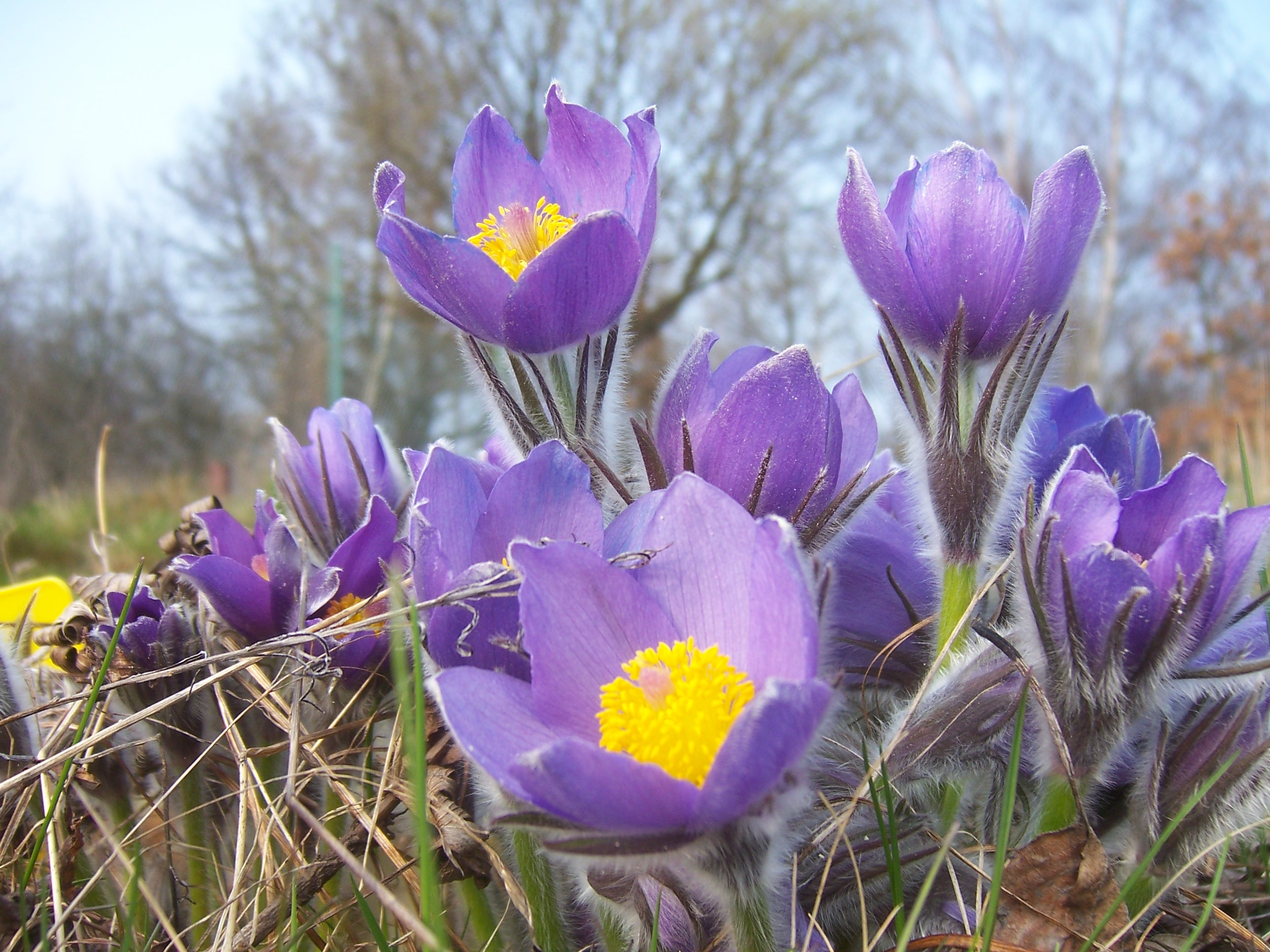 Pulsatilla patens in natural monument Krásná Lípa near Křimov, Chomutov District, Czech Republic